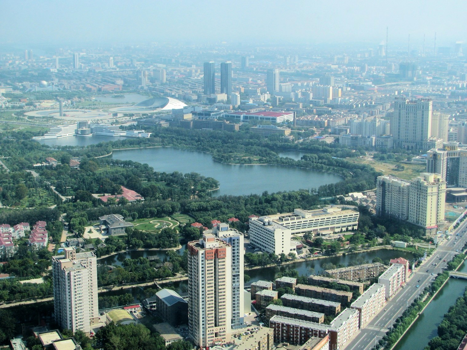 Tianjin Museum and a part of Tianjin Garden as seen from Tianjin TV tower on a typical slightly hazy day (small, lowres)